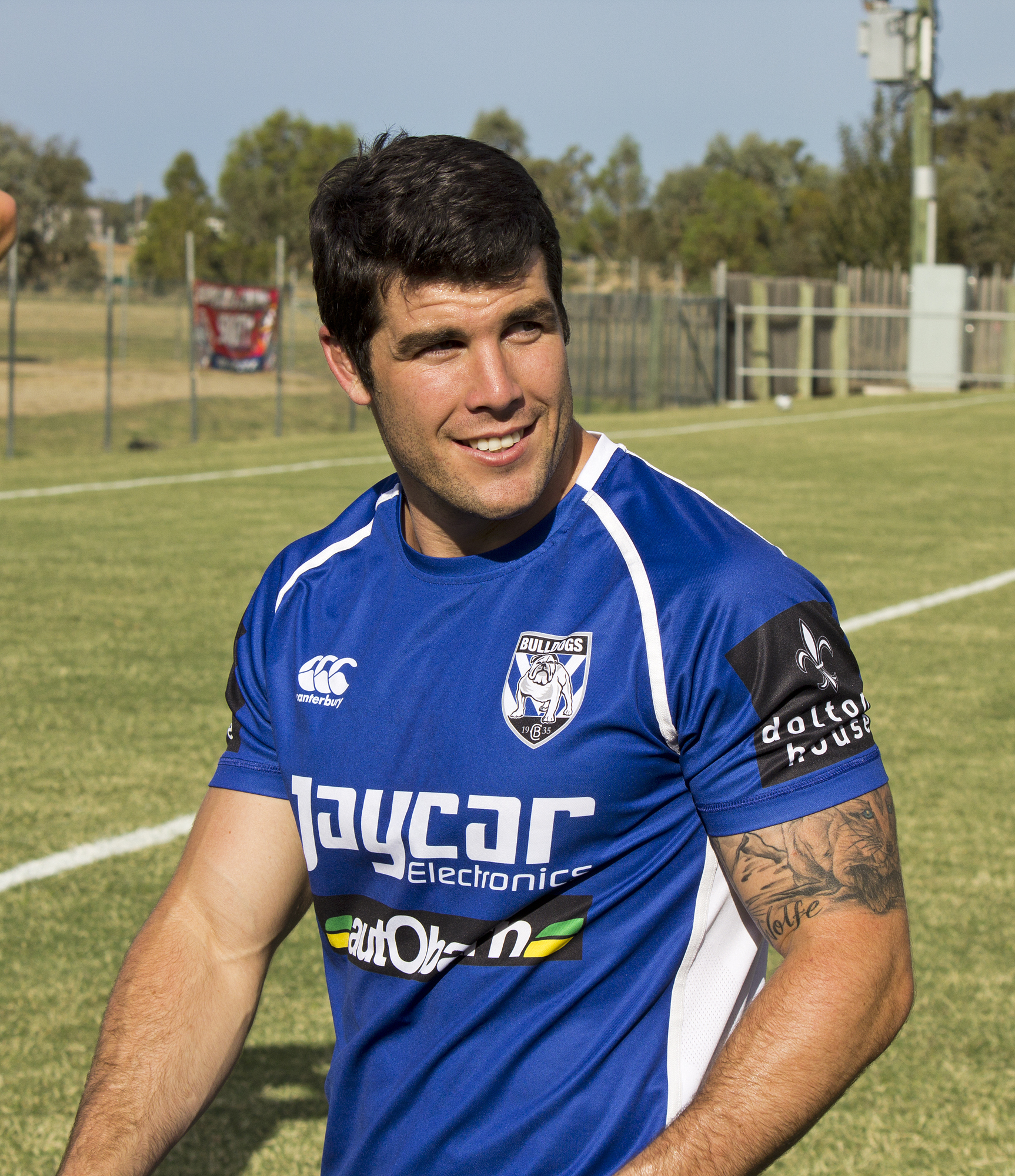 Michael Ennis, Bulldogs captain, at McDonald's Park in Wagga Wagga, New South Wales.